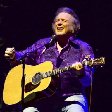 Don McLean in Gateshead UK May 2018